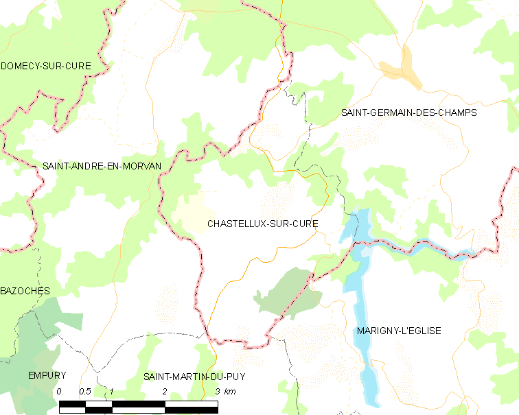 Map of French municipality Chastellux-sur-Cure